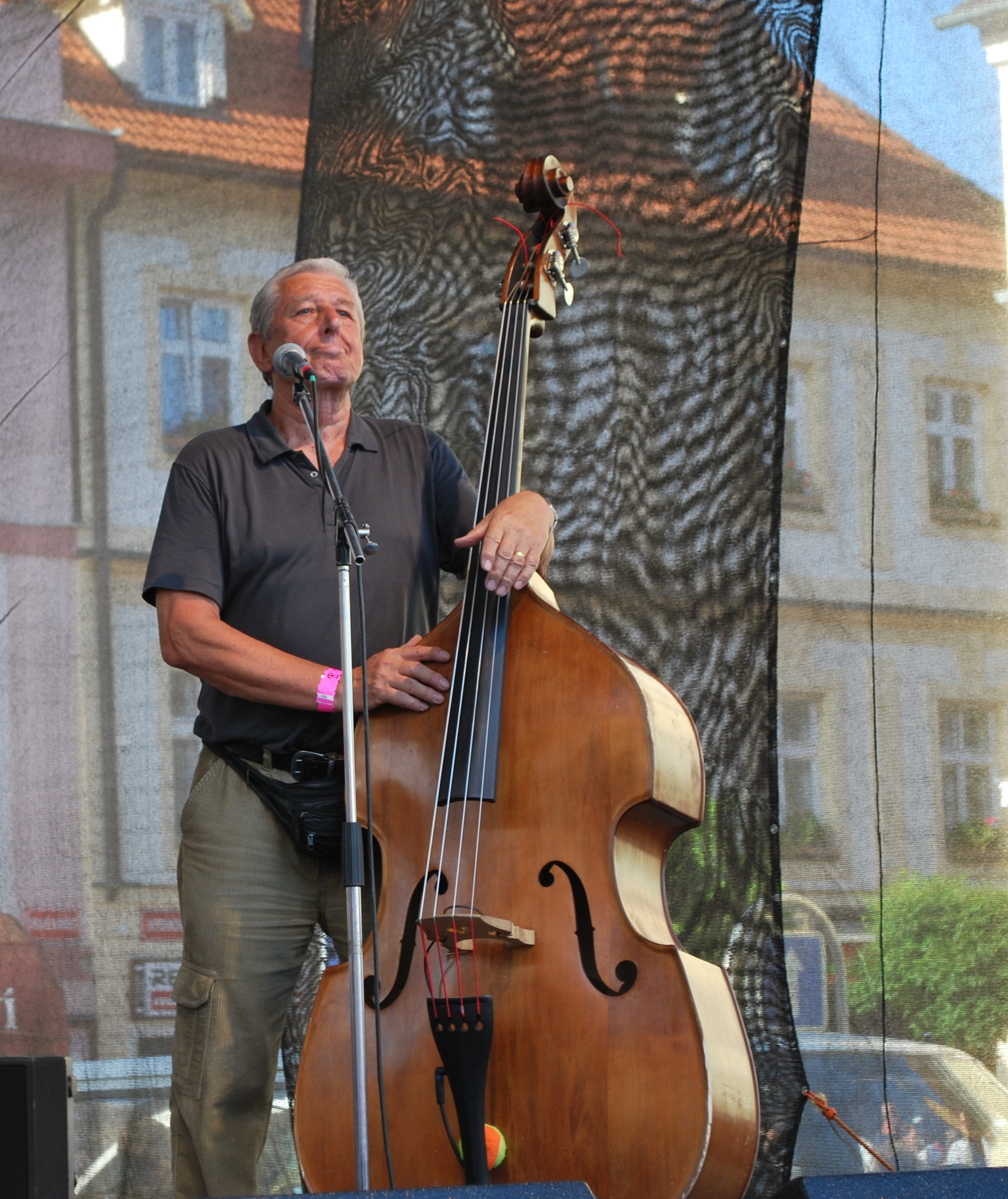 Dušan Vančura, member of czech music group Spiritual kvintet during concert in Písek town, Czech Republic.